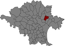 Location of Vilajuïga in Alt Empordà